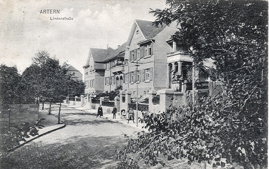 Postcard, dated 3.2.1913. Title: "Artern - Lindenstraße"